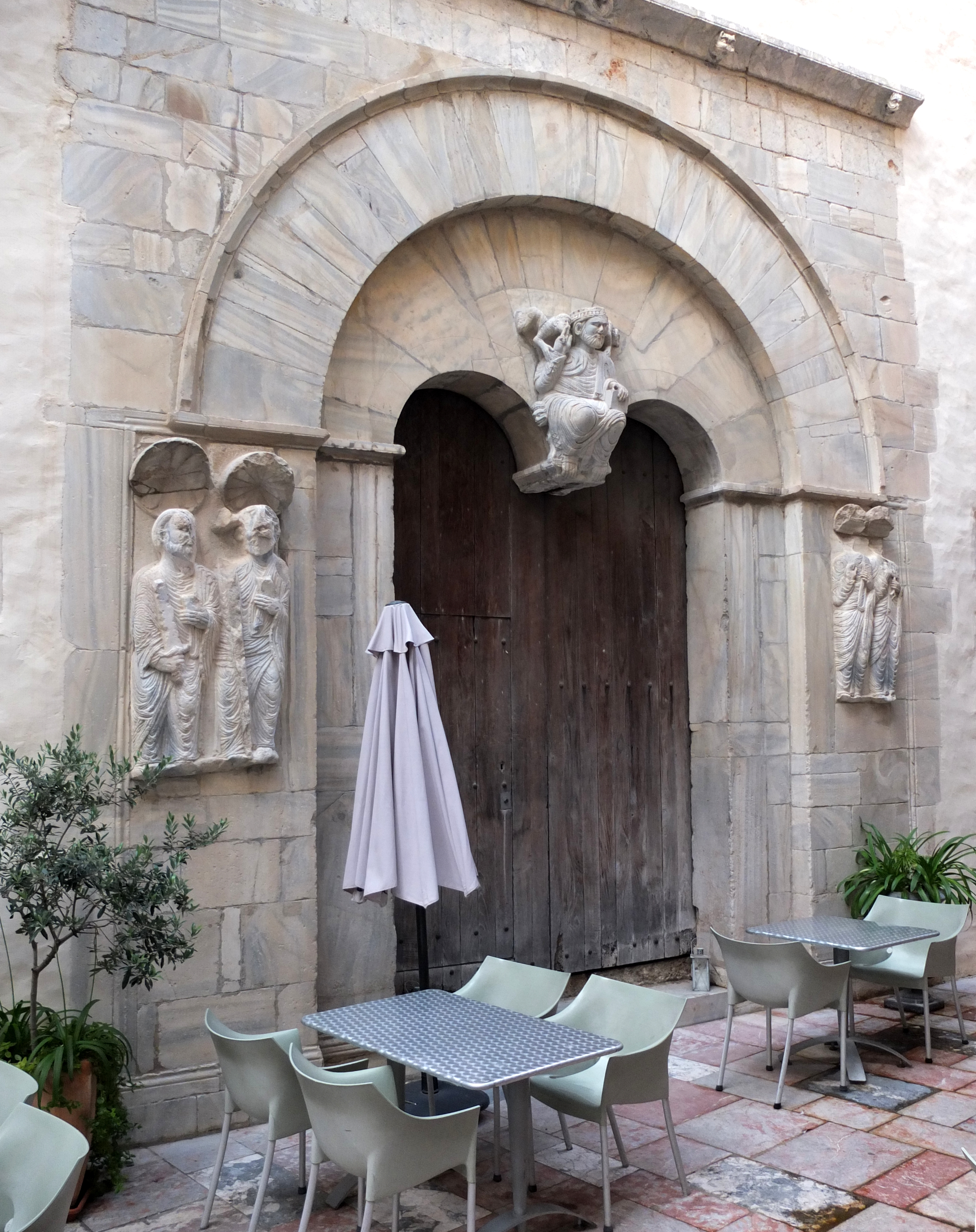 Portal of Église Saint-Jean le Vieux de Perpignan. Ministère de la Culture (France): Base Mémoire: AP47Z01222